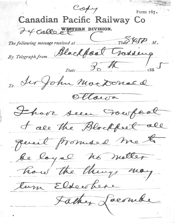 Telegram from Father Lacombe assuring Prime Minister Macdonald of Crowfoot's loyalty, March 30, 1885